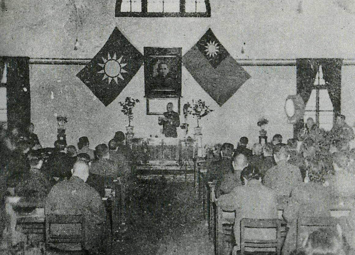 Chungking Negotiation at 1946Bân-lâm-gú: 1946-nî tī Tiông-khìng ê tsìng-tī hia̍p-siong huē-gī. 1946年佇重慶的政治協商會議。